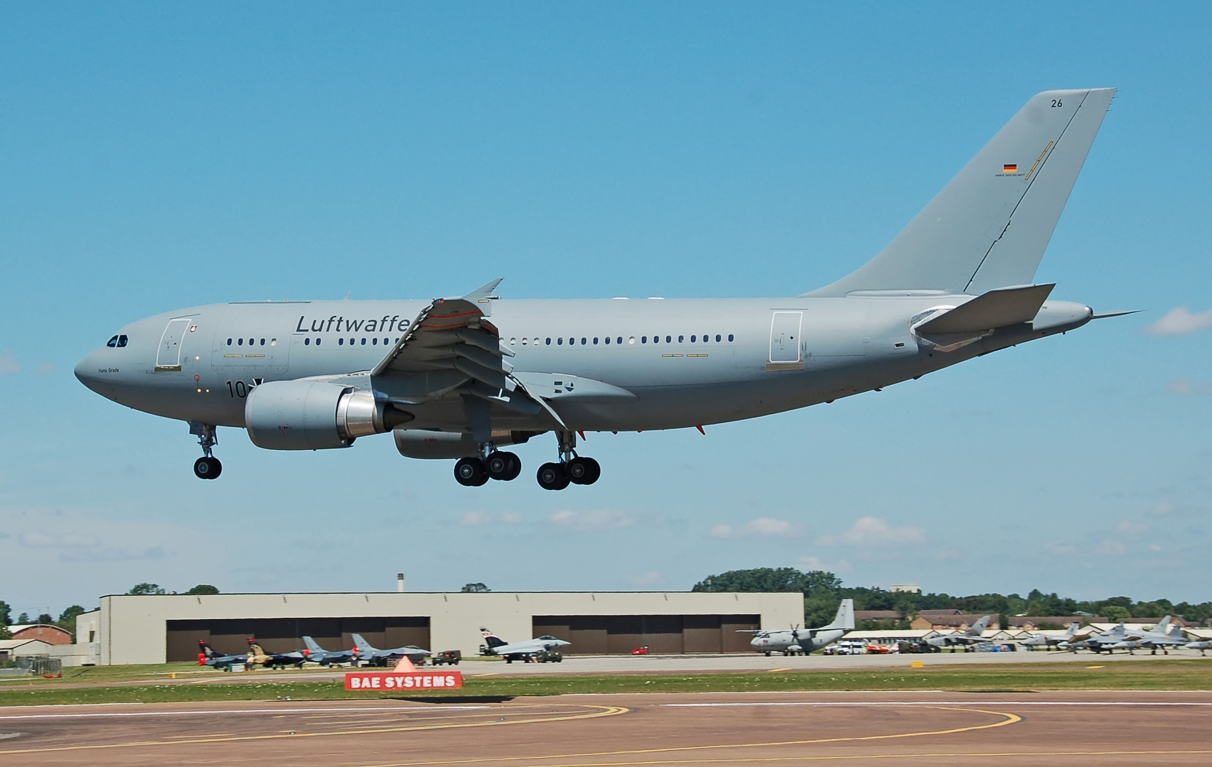 German Air Force Airbus A310 MRTT (code 10-26) arrives for the 2014 Royal International Air Tattoo, RAF Fairford, Gloucestershire, England.